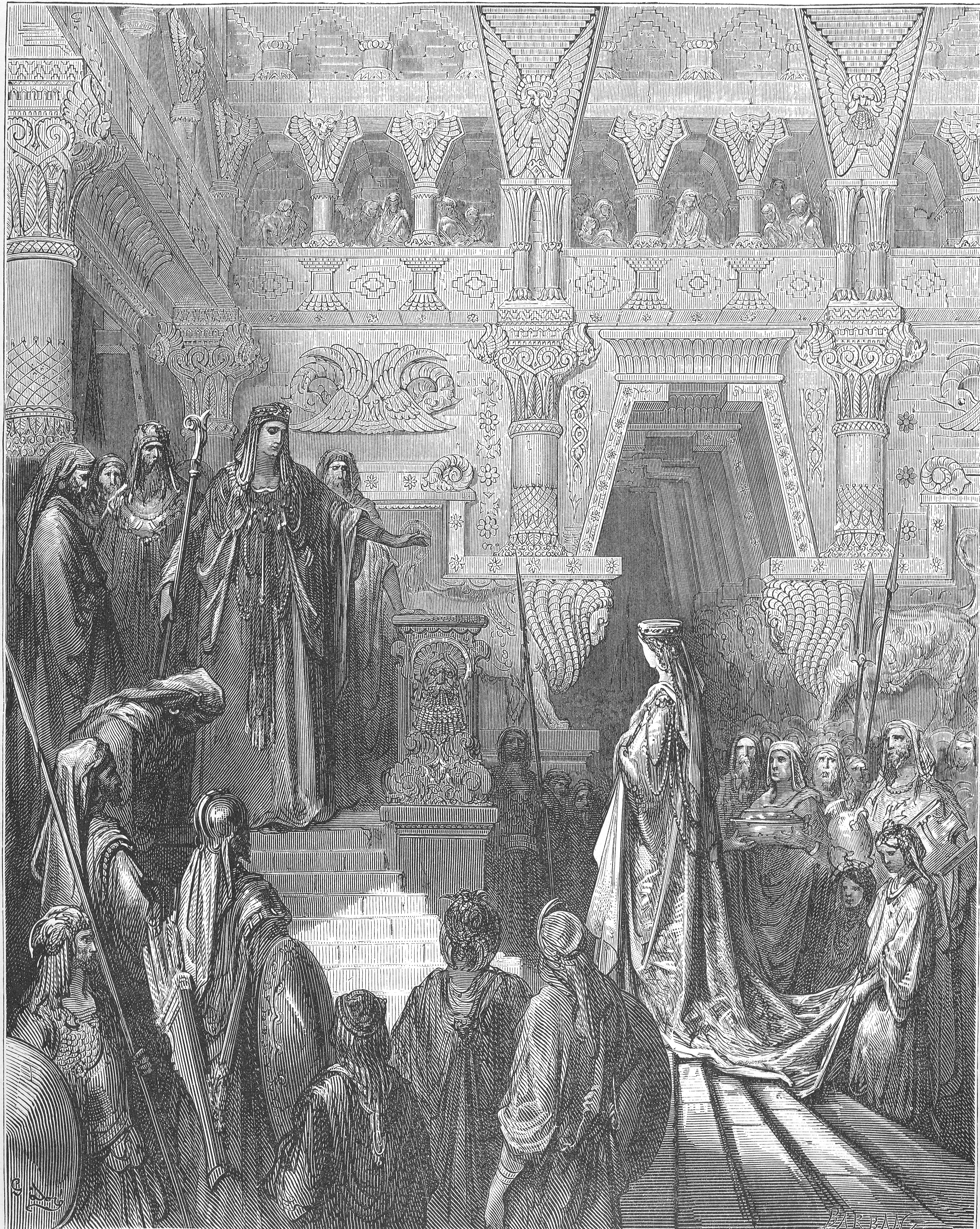 Solomon Receives the Queen of Sheba (1Kings 10:1-13)